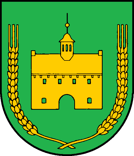 Coat of arms of the municipality Jersbek in Schleswig-Holstein, Germany.